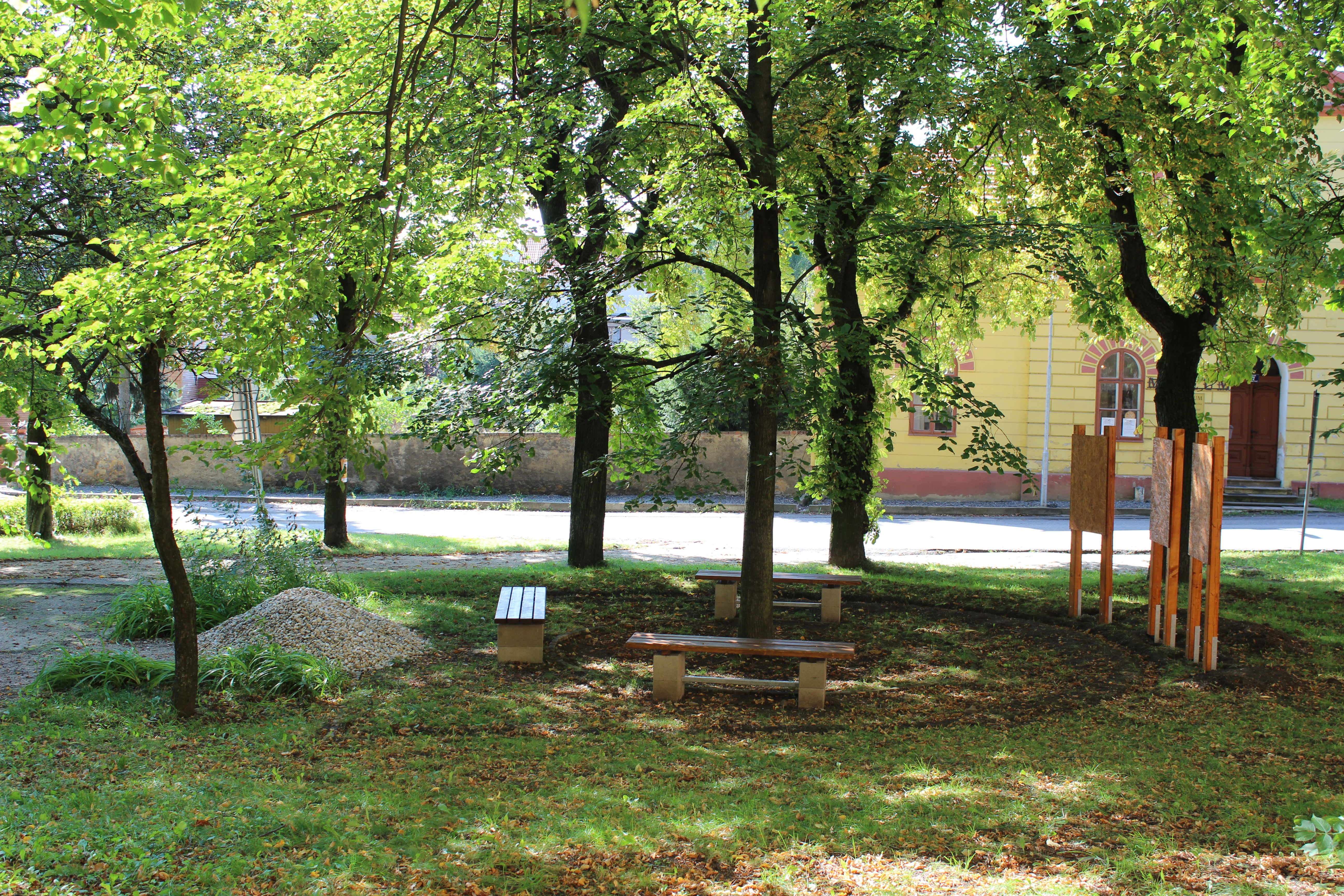 Educational trail Liteň